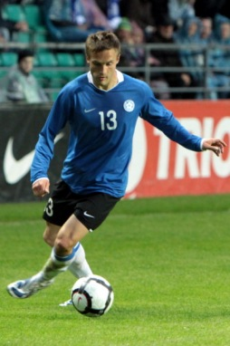 Martin Vunk - Estonian National Team Footballer